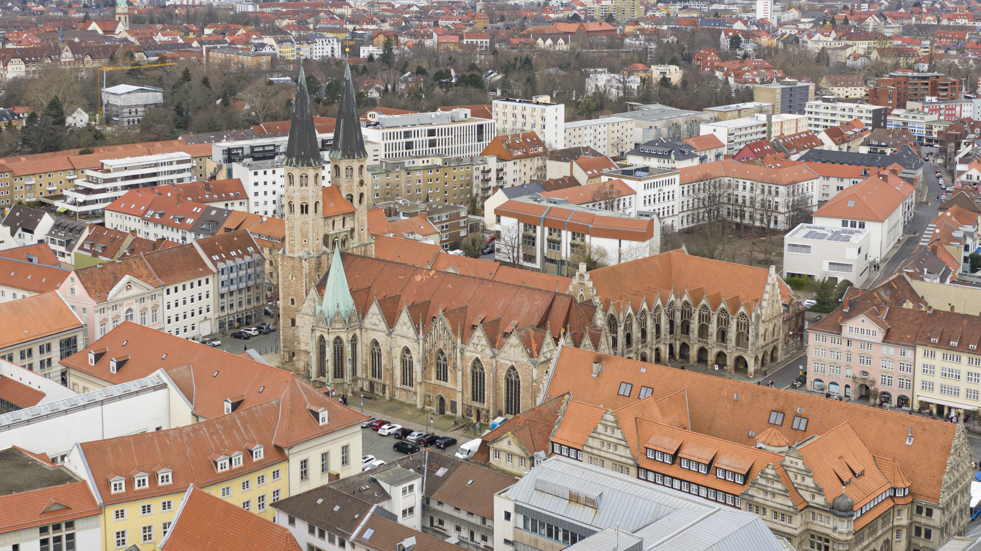 St. Martini, Braunschweig, Germany